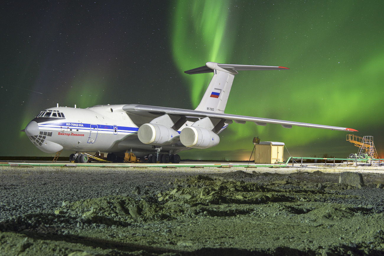 Ilyushin Il-76MD-90A with aurora and meteor